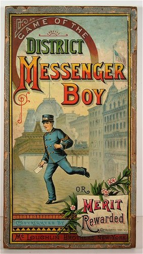 Game of the District Messenger Boy box cover published by McLoughlin Brothers of NYC, circa 1886